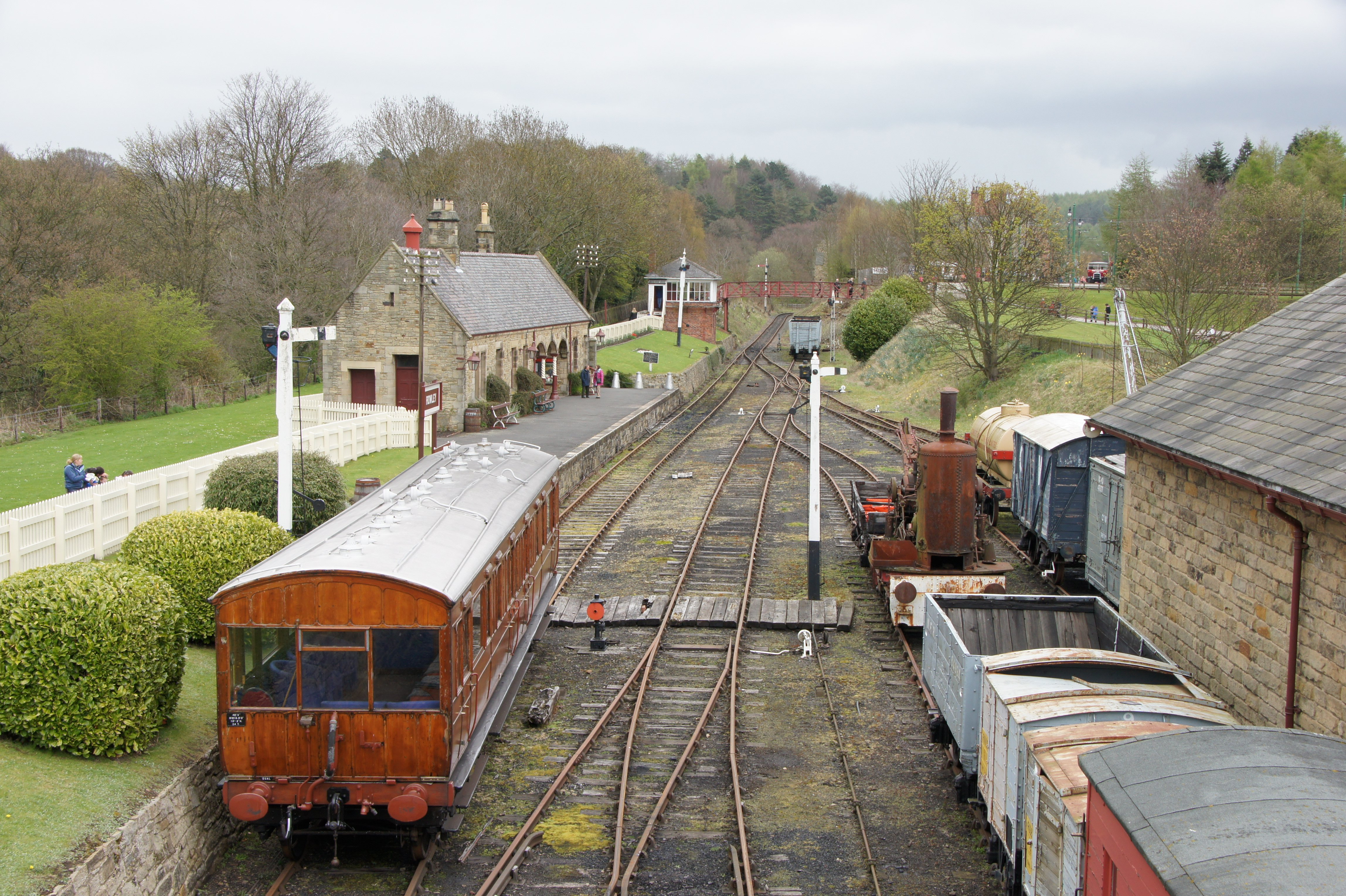 Beamish Museum, County Durham, England. The view east from the west footbridge on the Town railway, showing the station, signal box, east footbridge & part of the goods shed & yard. Top right, just about visible, is the museum' 1913 Northern replica bus (reg. J 2007) at the west end of the main street in the Town itself. The coach on the right is the one used for runs along the short demonstration line, although services don't appear to be running today (unless the locomotive is out of shot behind the camera, or running light engine out of sight at the other end of the line, both of which seem unlikely).